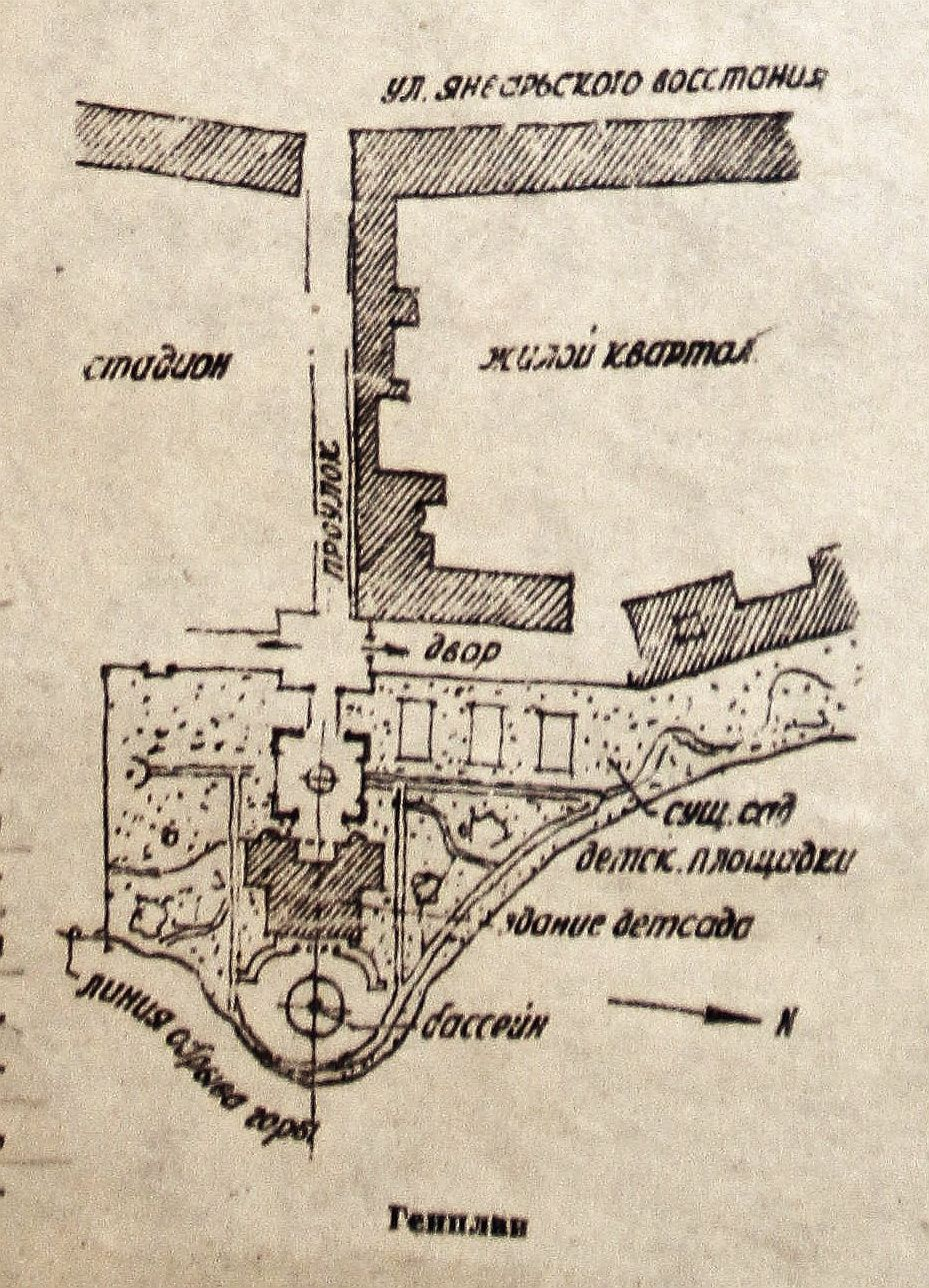 General plan for construction of the kindergarten Orlenok by Joseph Yulievich Karakis